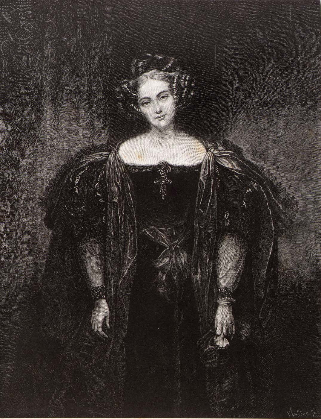 Miss Henriette Sontag, As Donna Anna in Mozart's Don Giovanni [after the painting by Paul Delaroche in the Dresden Picture Gallery that perished during the Second World War.]